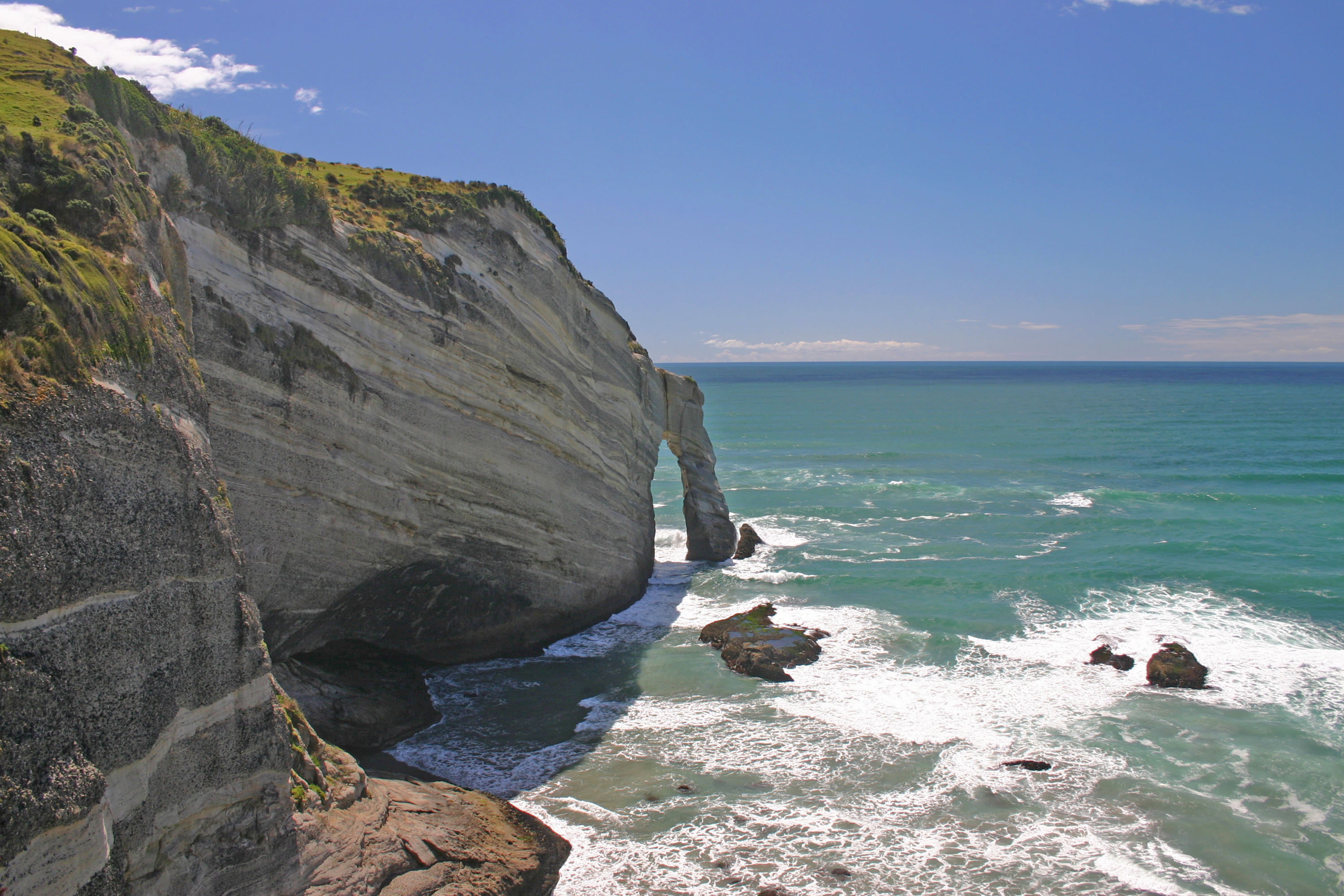 Natural arch in rocks at Cape Farewell, on northernmost tip of New Zealand's South Island